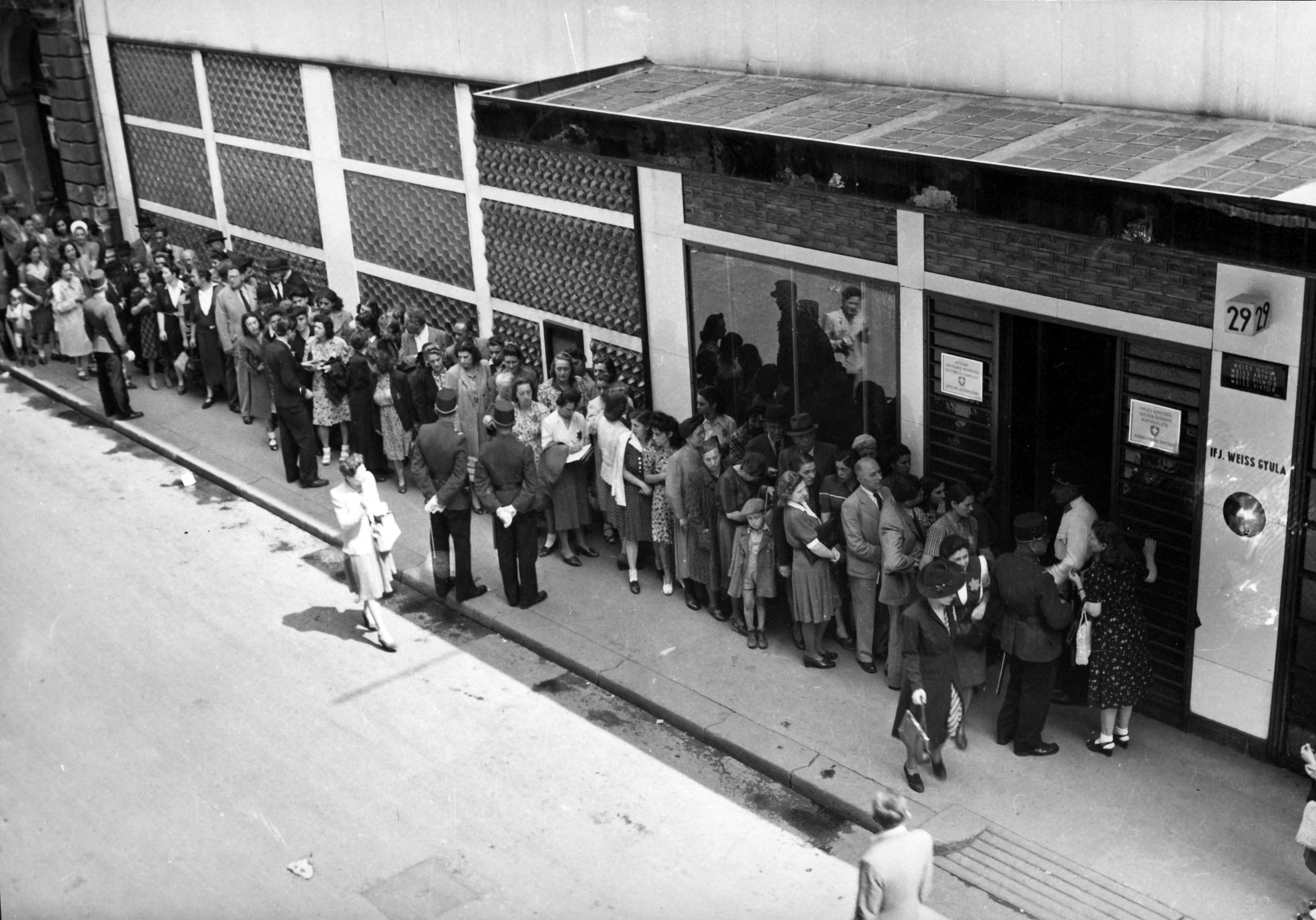 Tags: cop, standing in line, yellow star